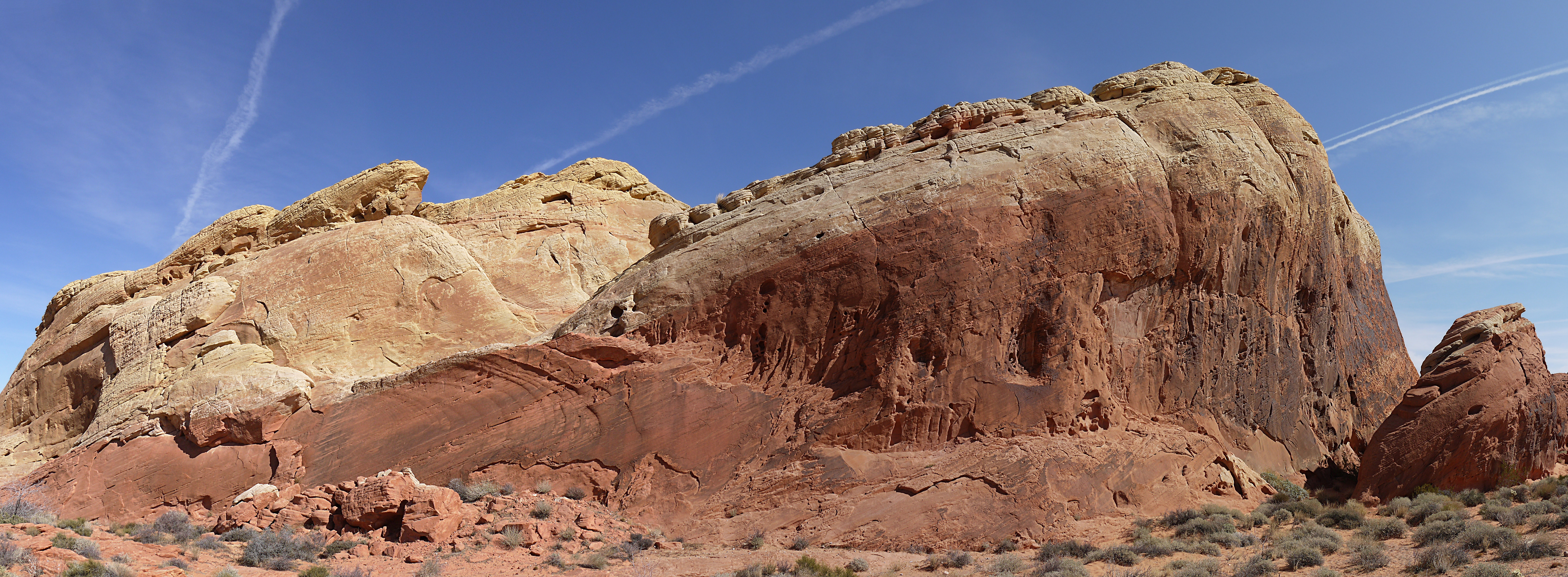 Partially bleached Aztec Sandstone.